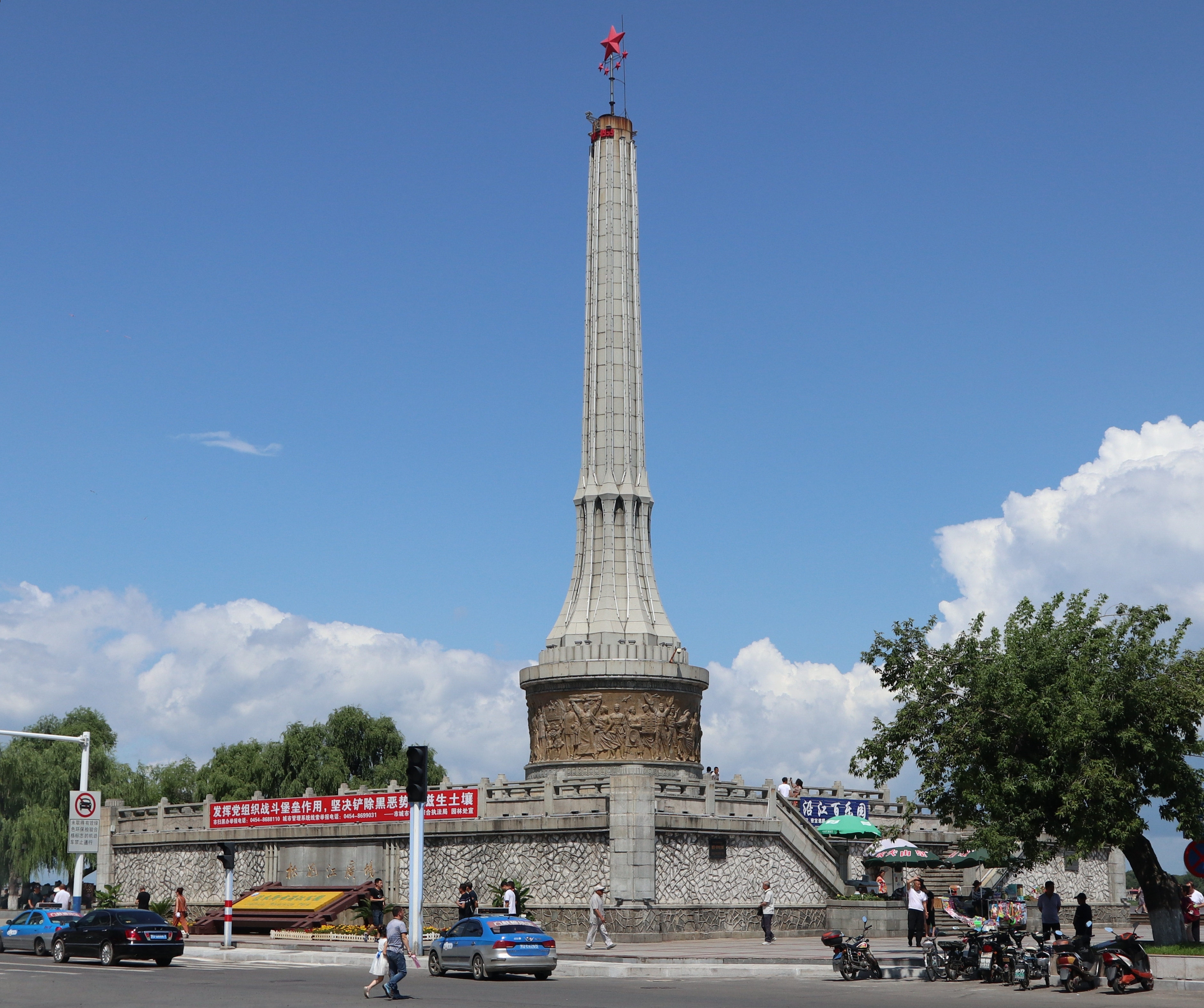 10th Anniversary Memorial Tower of the founding of PRC in Jiamusi.